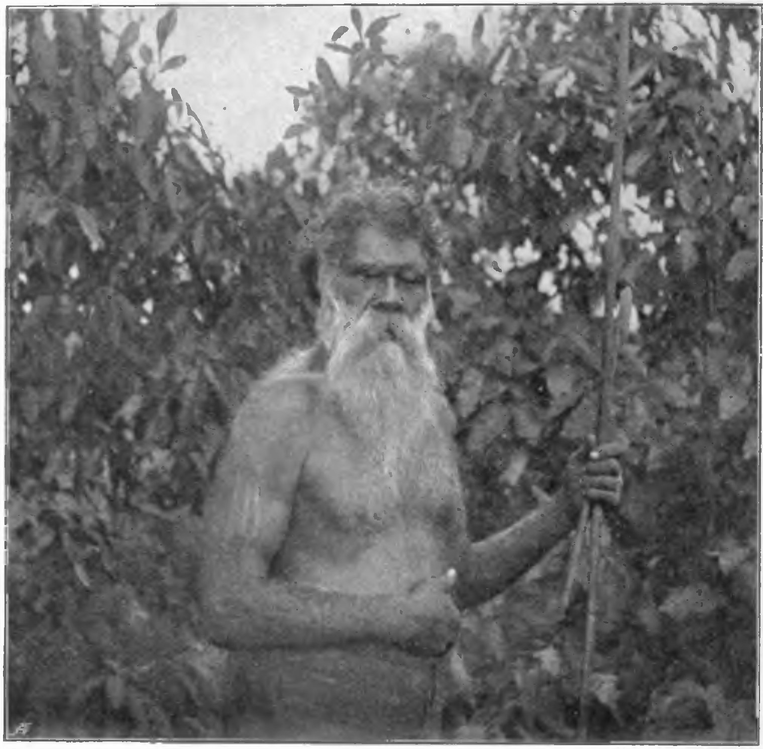 One of the Krauatungalung clan of the Kurnai tribe